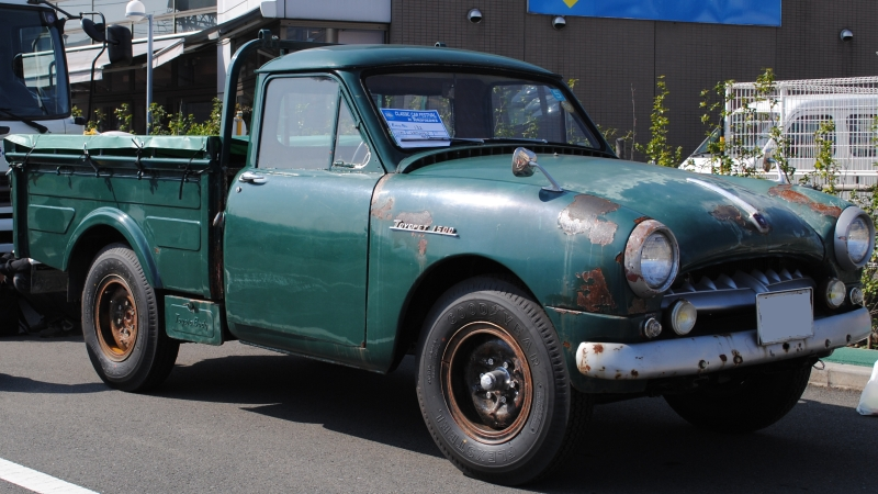 Toyopet 1500 RK23.